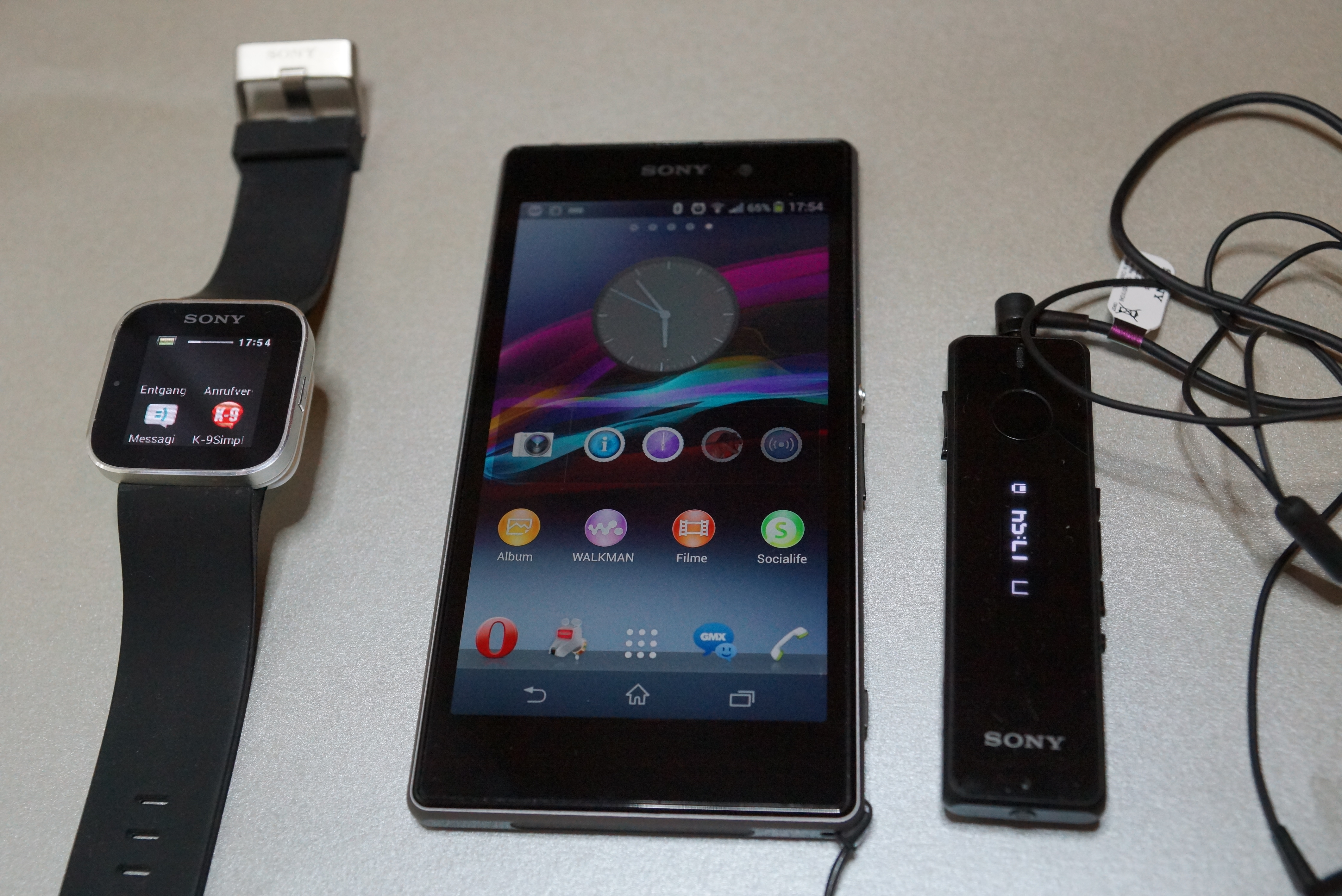 Sony SmartWatch Sony Xperia Z1 C6908 Sony Smart Bluetooth® Handset SBH52